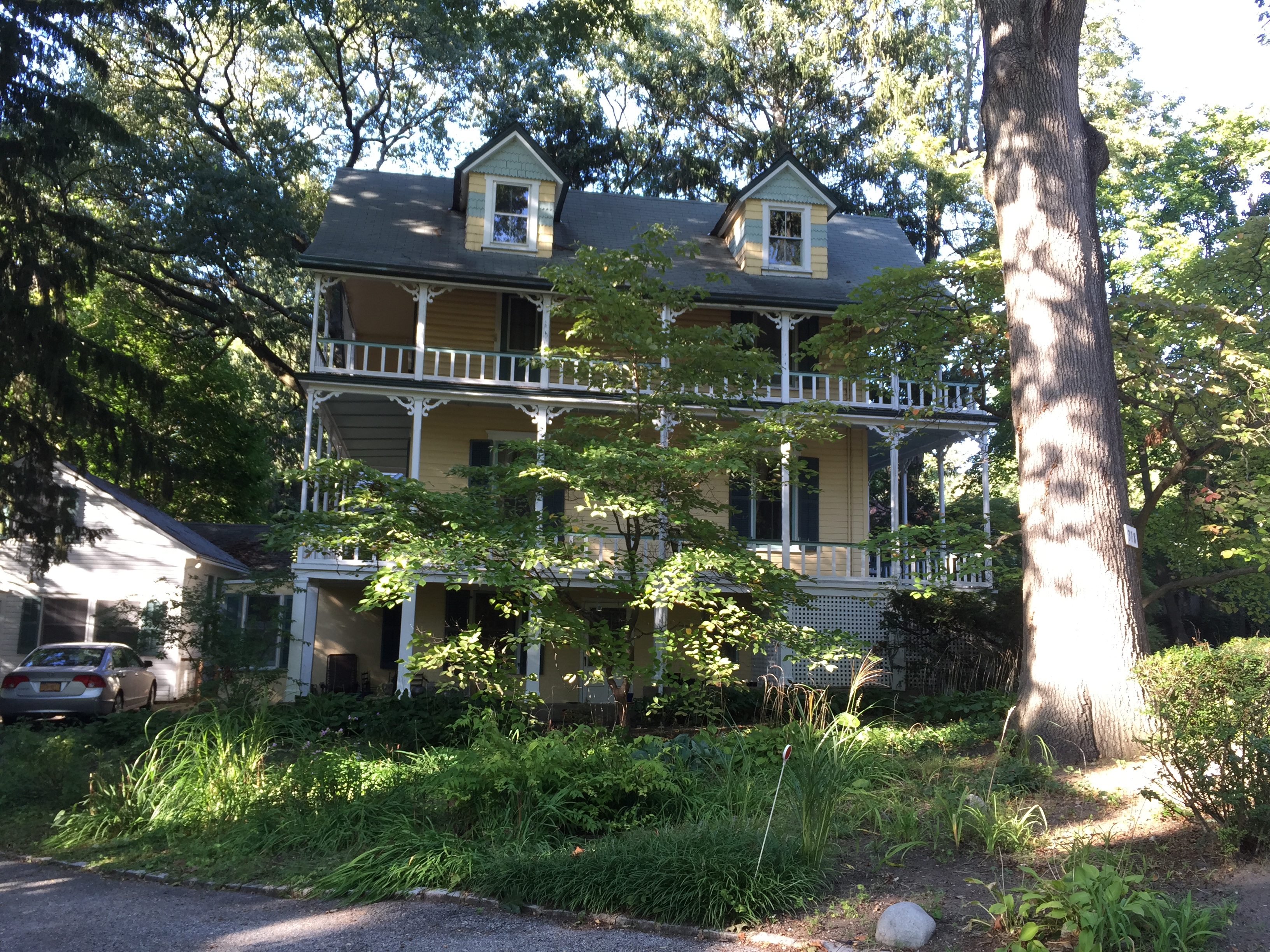 House at 378 Glen Avenue from the south, Sea Cliff, New York